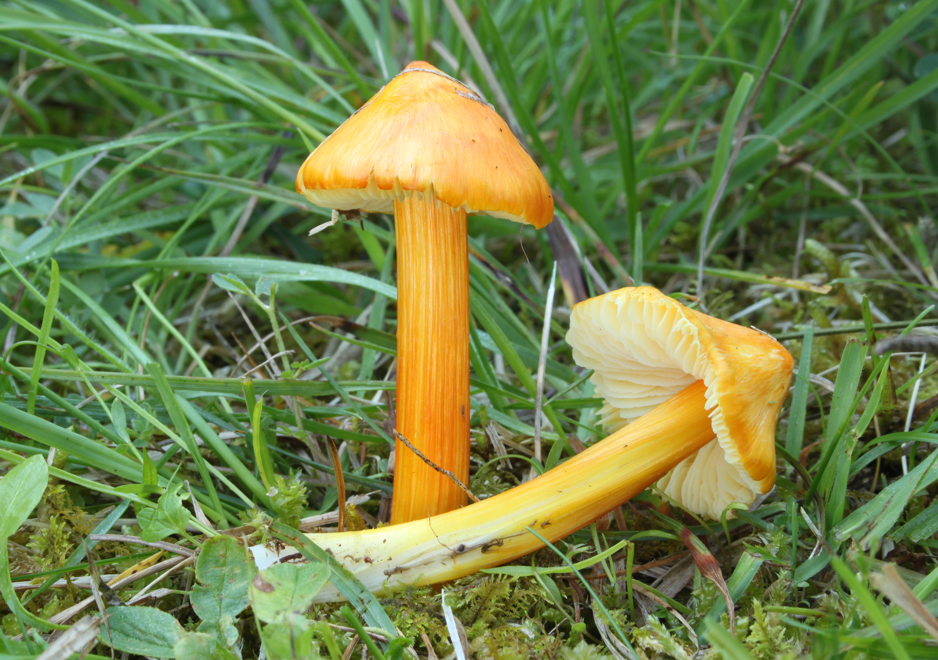 Hygrocybe acutoconica, Family: Hygrophoraceae, Location: Germany, Blaubeuren, Pappelau